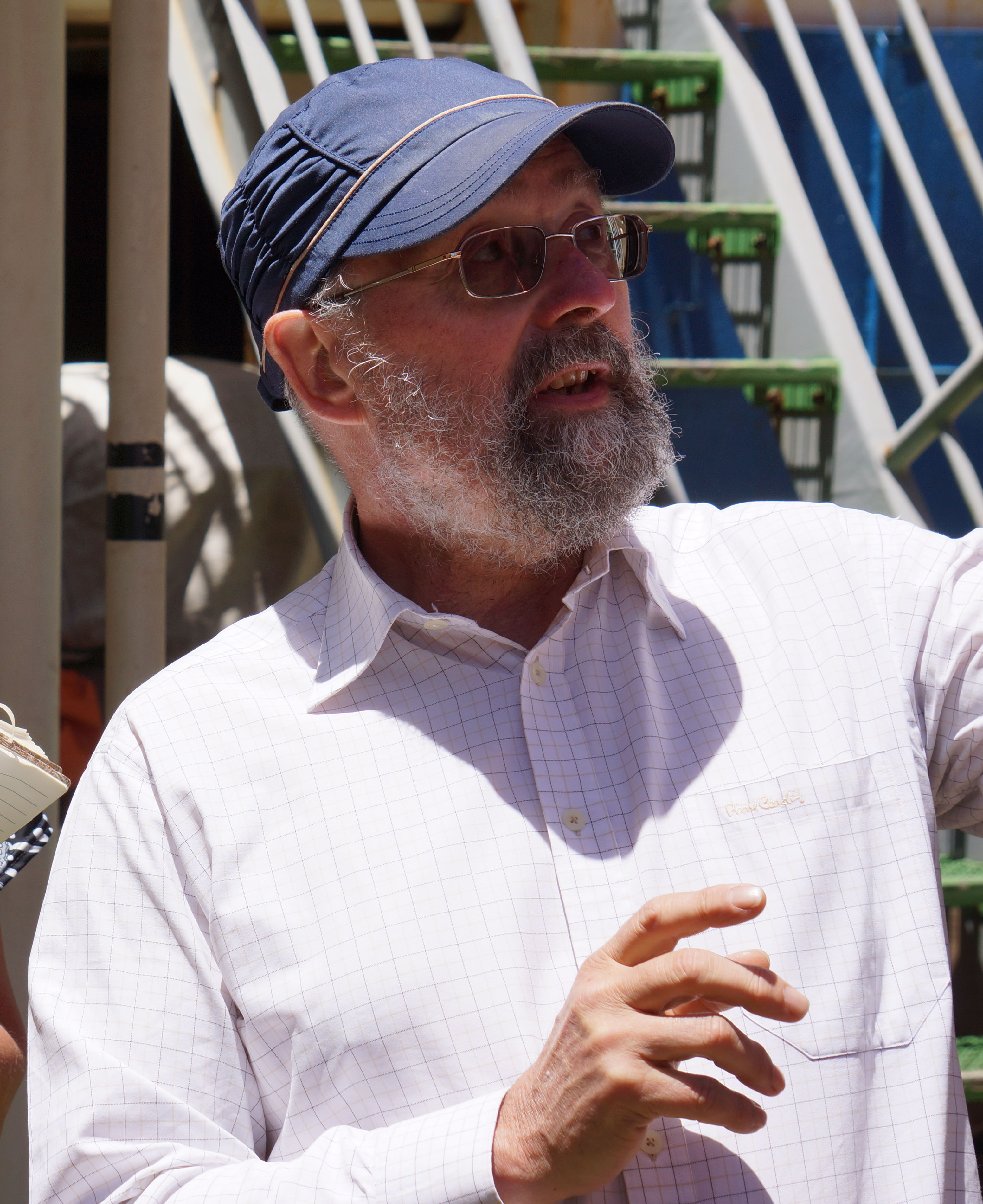 This photo was taken by Daniele Rod during Leg 1 of the ACE expedition (Swiss Polar Institute), circumnavigating Antarctica